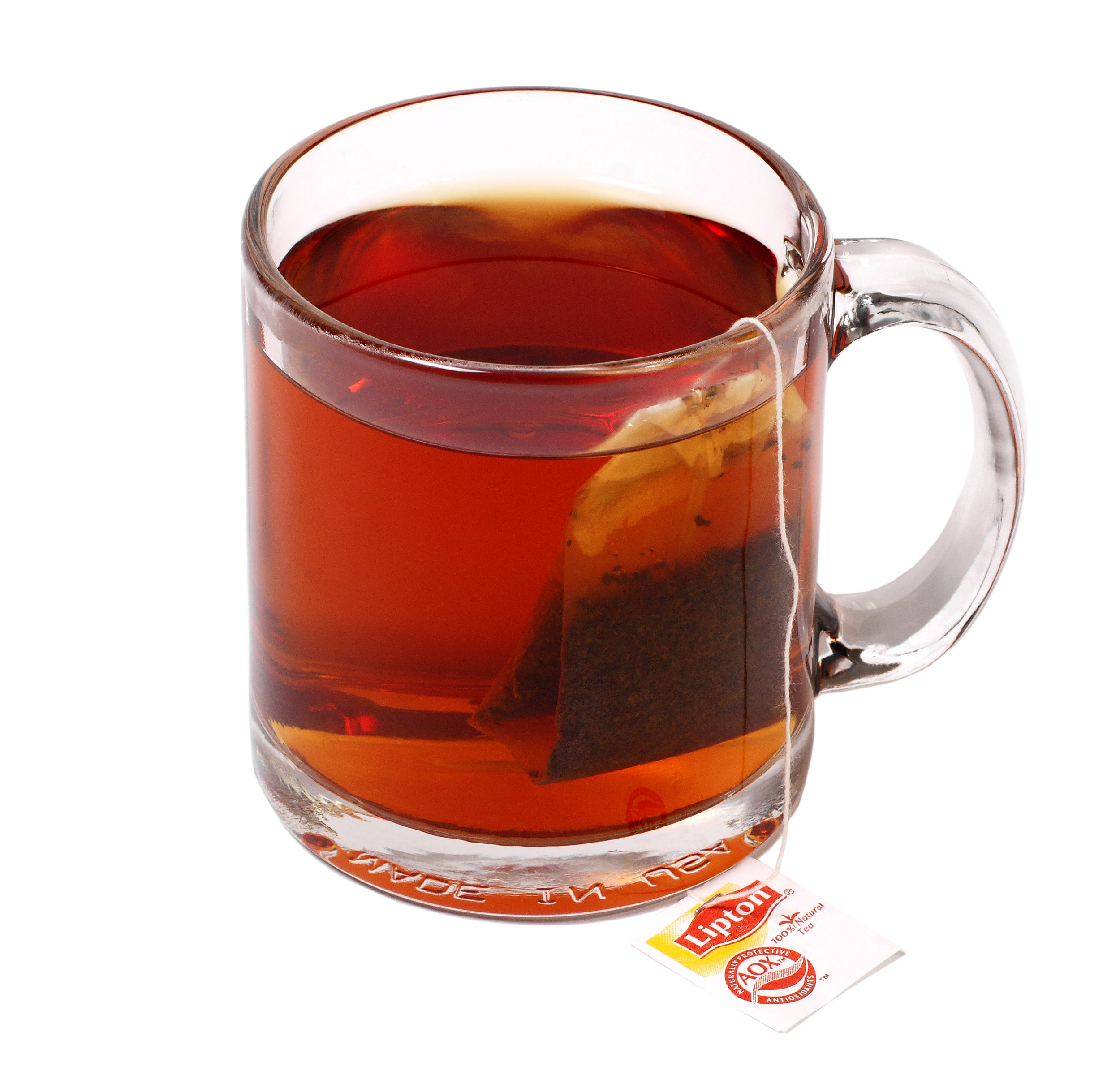 A mug of Lipton tea.